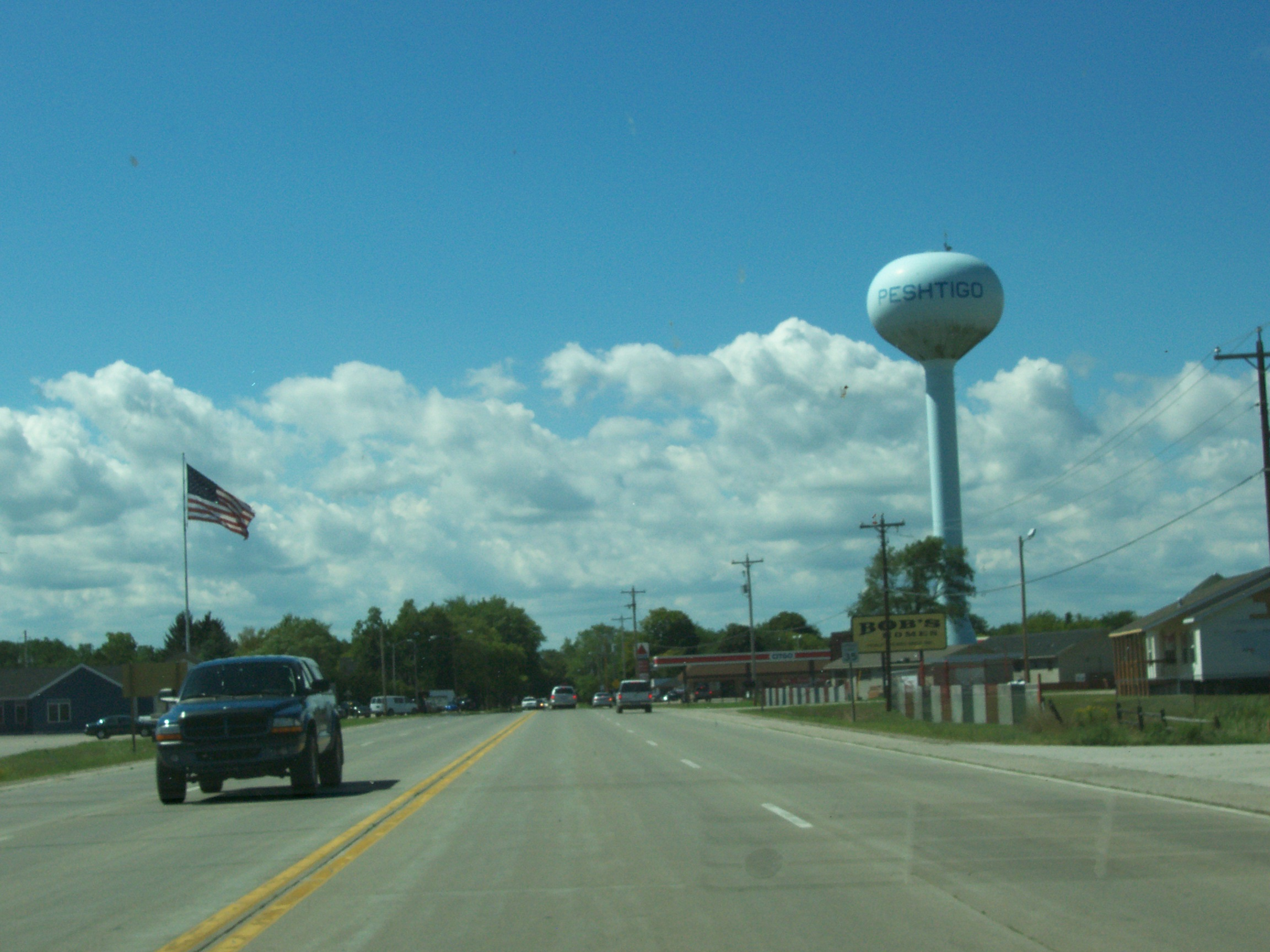 Looking north at Peshtigo, Wisconsin, USA on U.S. Route 41.